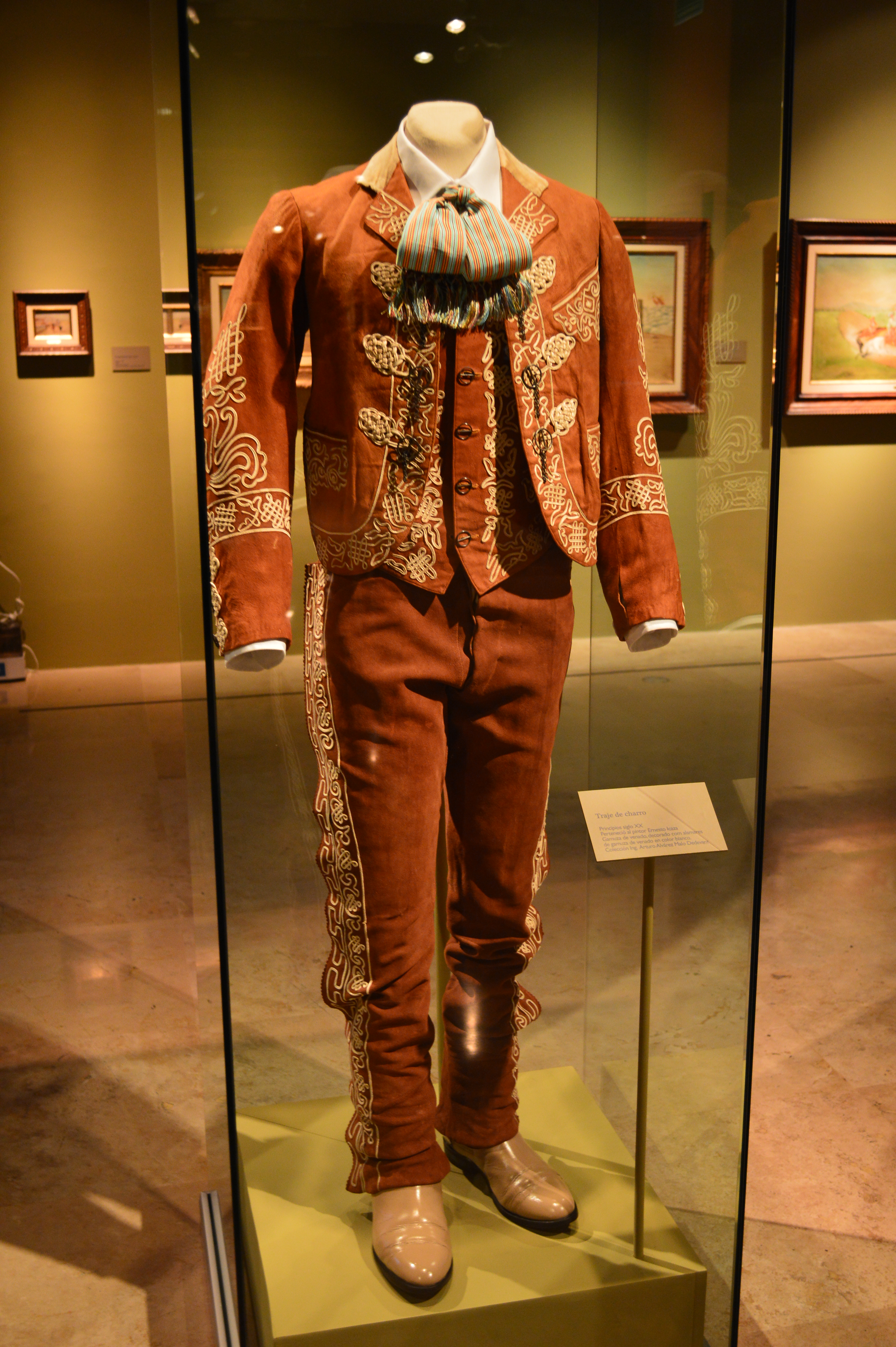 Charro suit from the early 20th century on display at the Museo del Noreste in Monterrey, Mexico